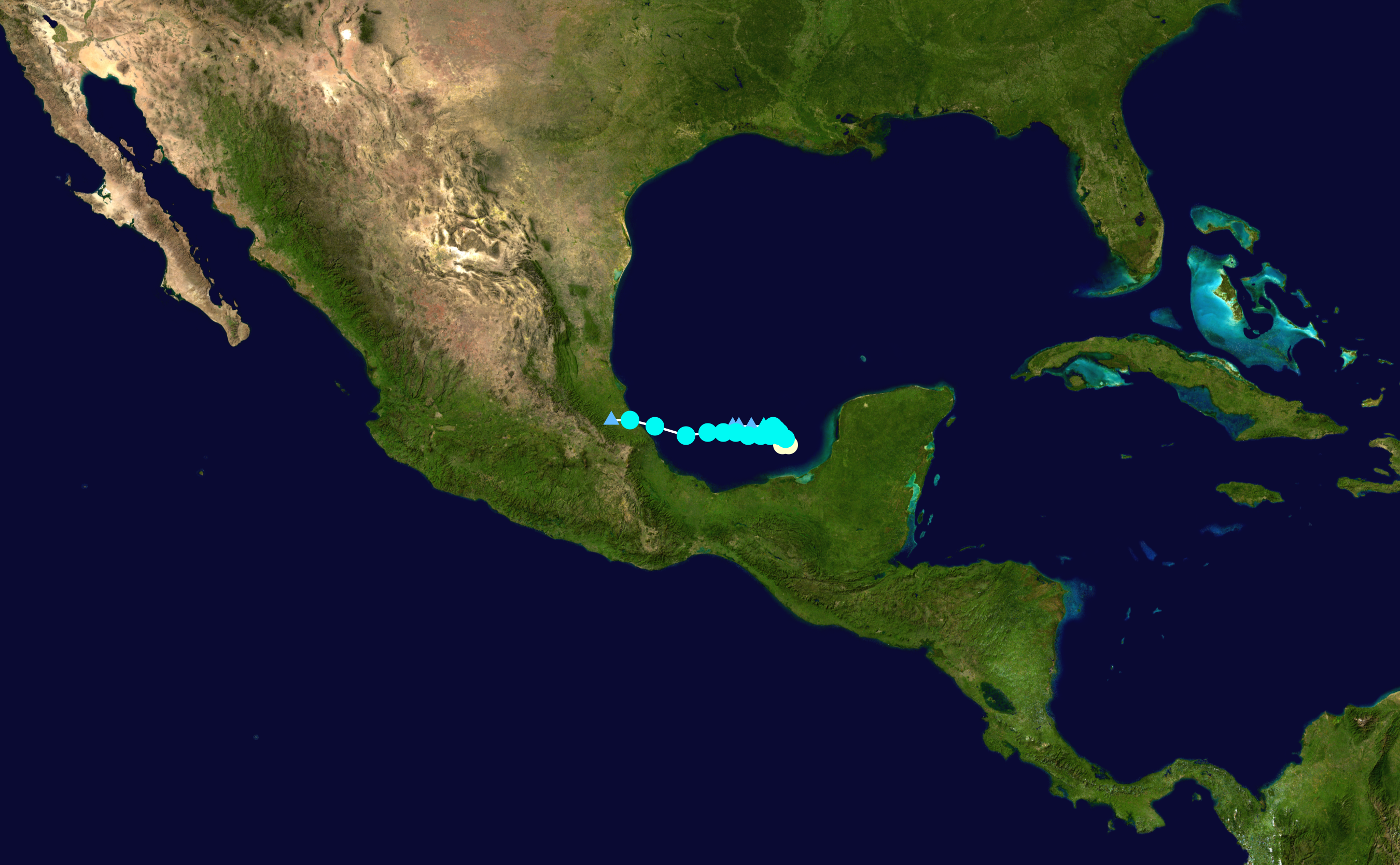 Track map of Tropical Storm Nate of the 2011 Atlantic hurricane season. The points show the location of the storm at 6-hour intervals. The colour represents the storm's maximum sustained wind speeds as classified in the Saffir–Simpson scale (see below), and the shape of the data points represent the nature of the storm, according to the legend below. Saffir–Simpson scale Tropical depression≤38 mph≤62 km/h Category 3111–129 mph178–208 km/h Tropical storm39–73 mph63–118 km/h Category 4130–156 mph209–251 km/h Category 174–95 mph119–153 km/h Category 5≥157 mph≥252 km/h Category 296–110 mph154–177 km/h Unknown Storm type Tropical cyclone Subtropical cyclone Extratropical cyclone / Remnant low / Tropical disturbance / Monsoon depression